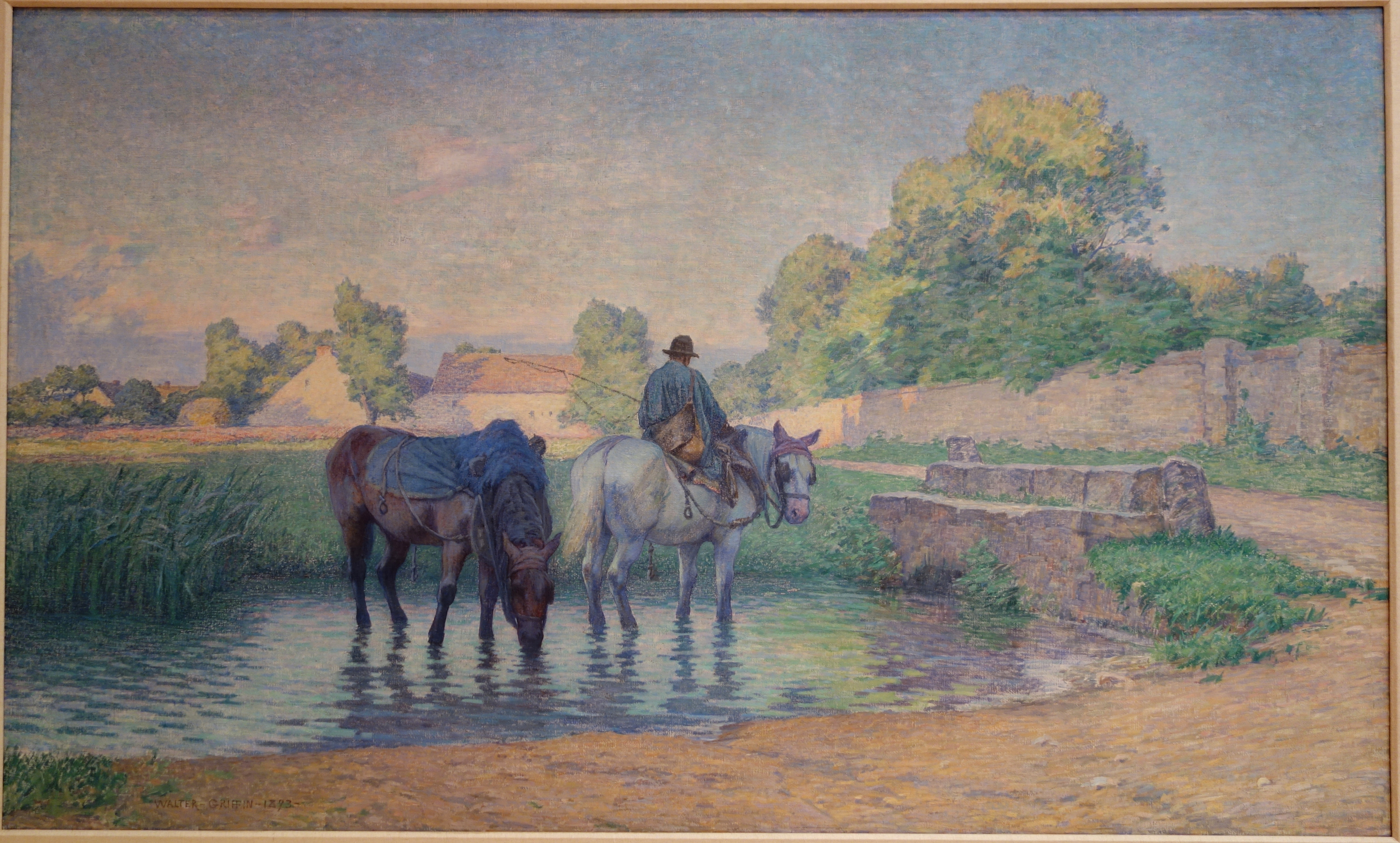 Exhibit in the Chazen Museum of Art, University of Wisconsin-Madison, Madison, Wisconsin, USA. This artwork is old enough so that it is in the public domain.